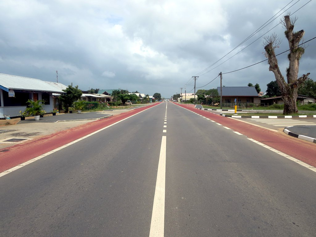 This highway runs 135 km east from Paramaribo, Suriname, to the Maroni River where a ferry crosses to French Guiana.